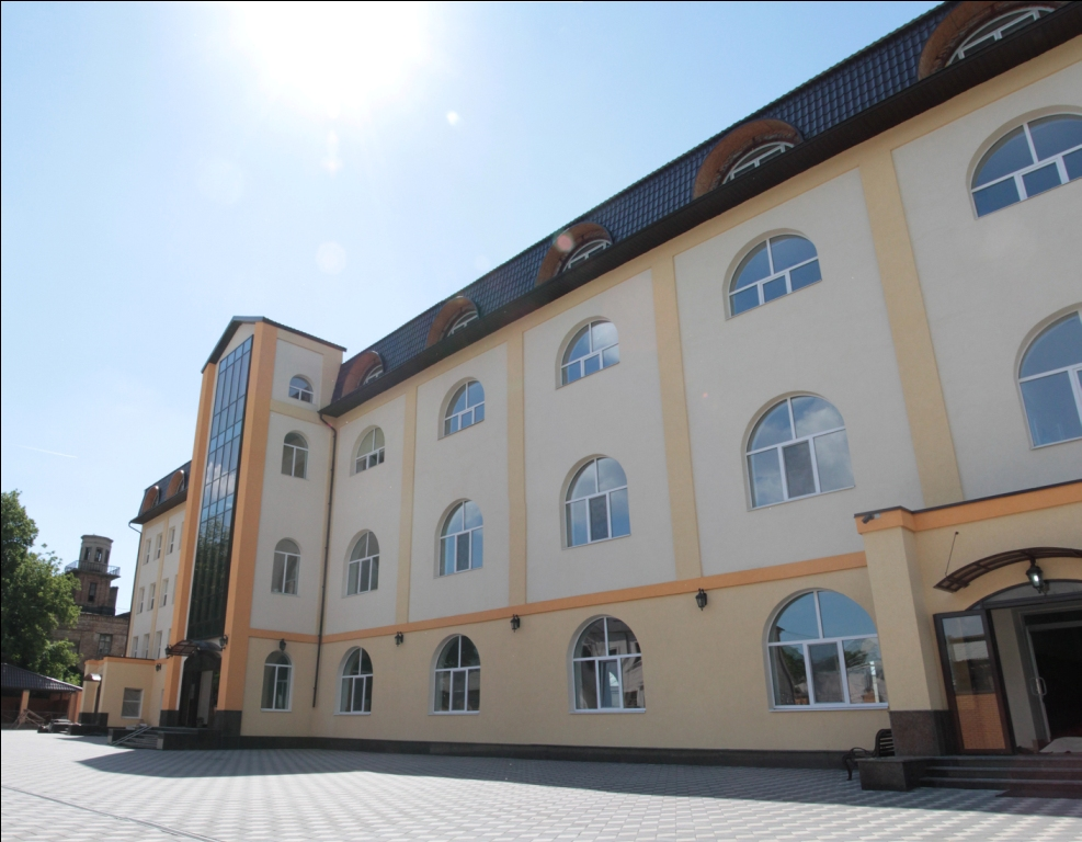 It is a front view of Islamic Cultural Center of Kiev